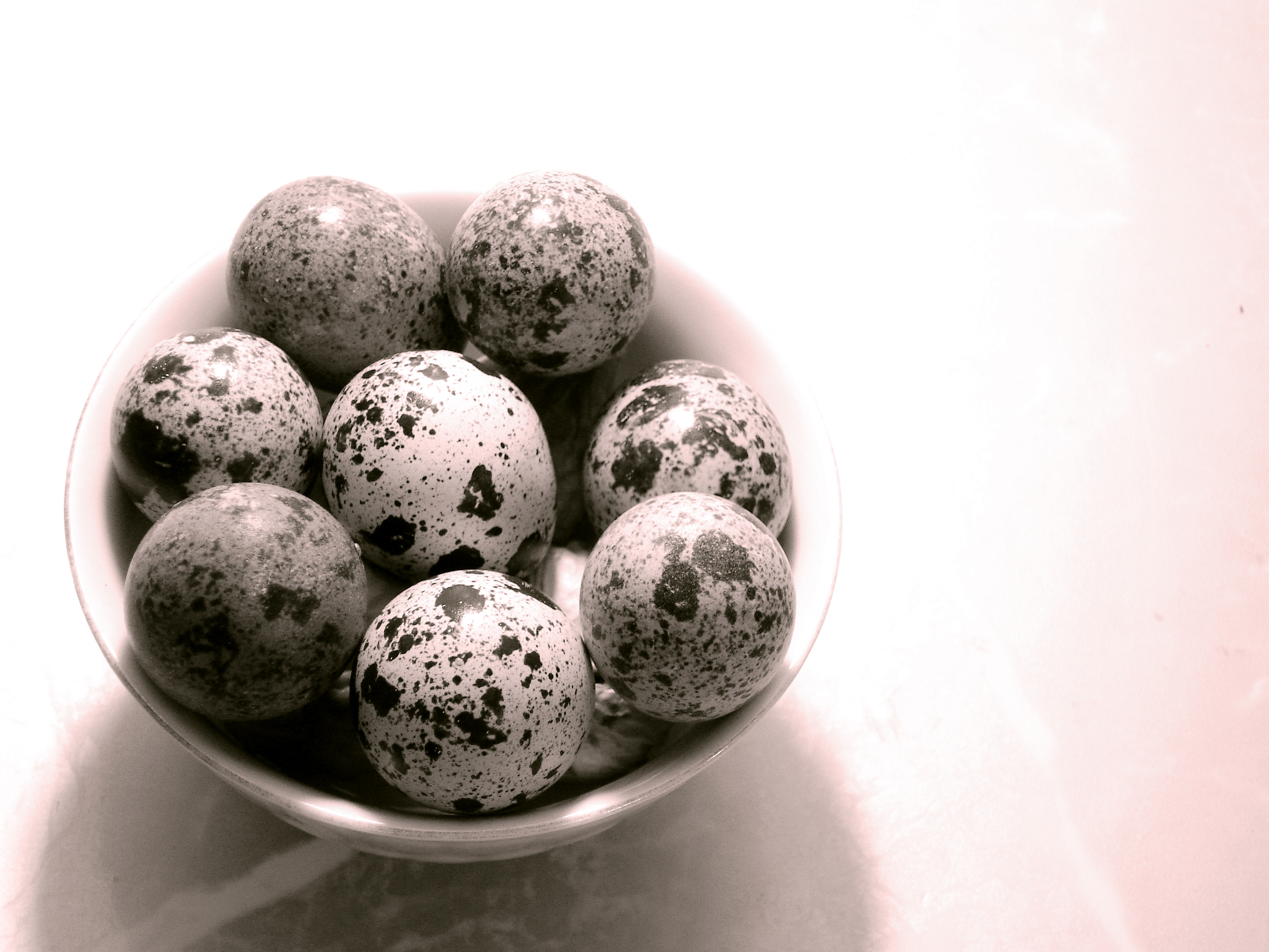 uail is a collective name for several genera of mid-sized birds generally placed in the order Galliformes.